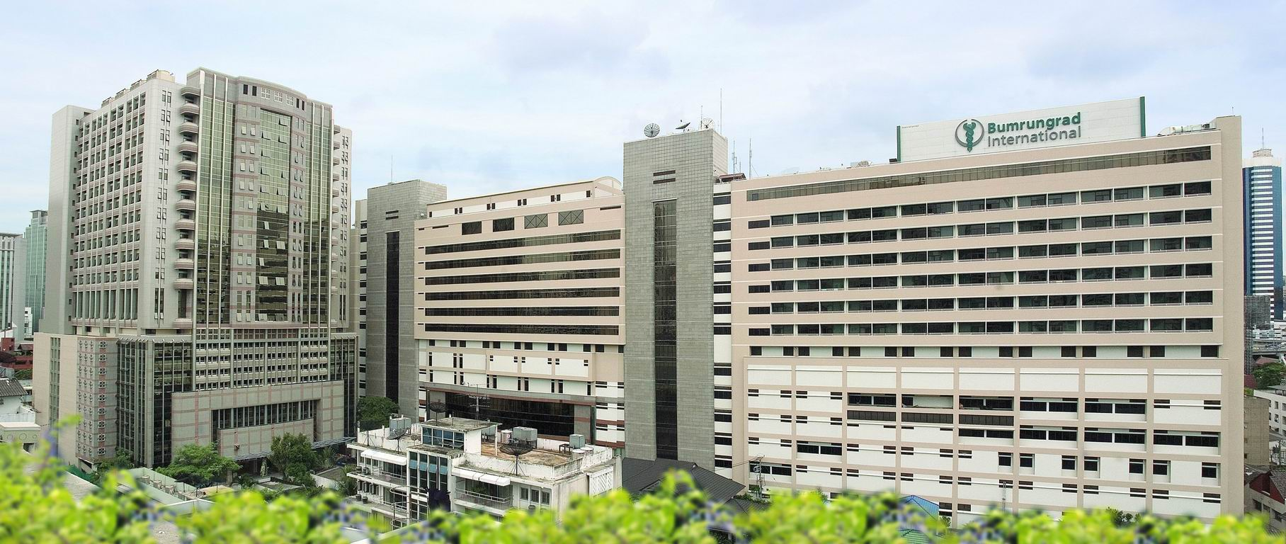 2 buildings of the hospital